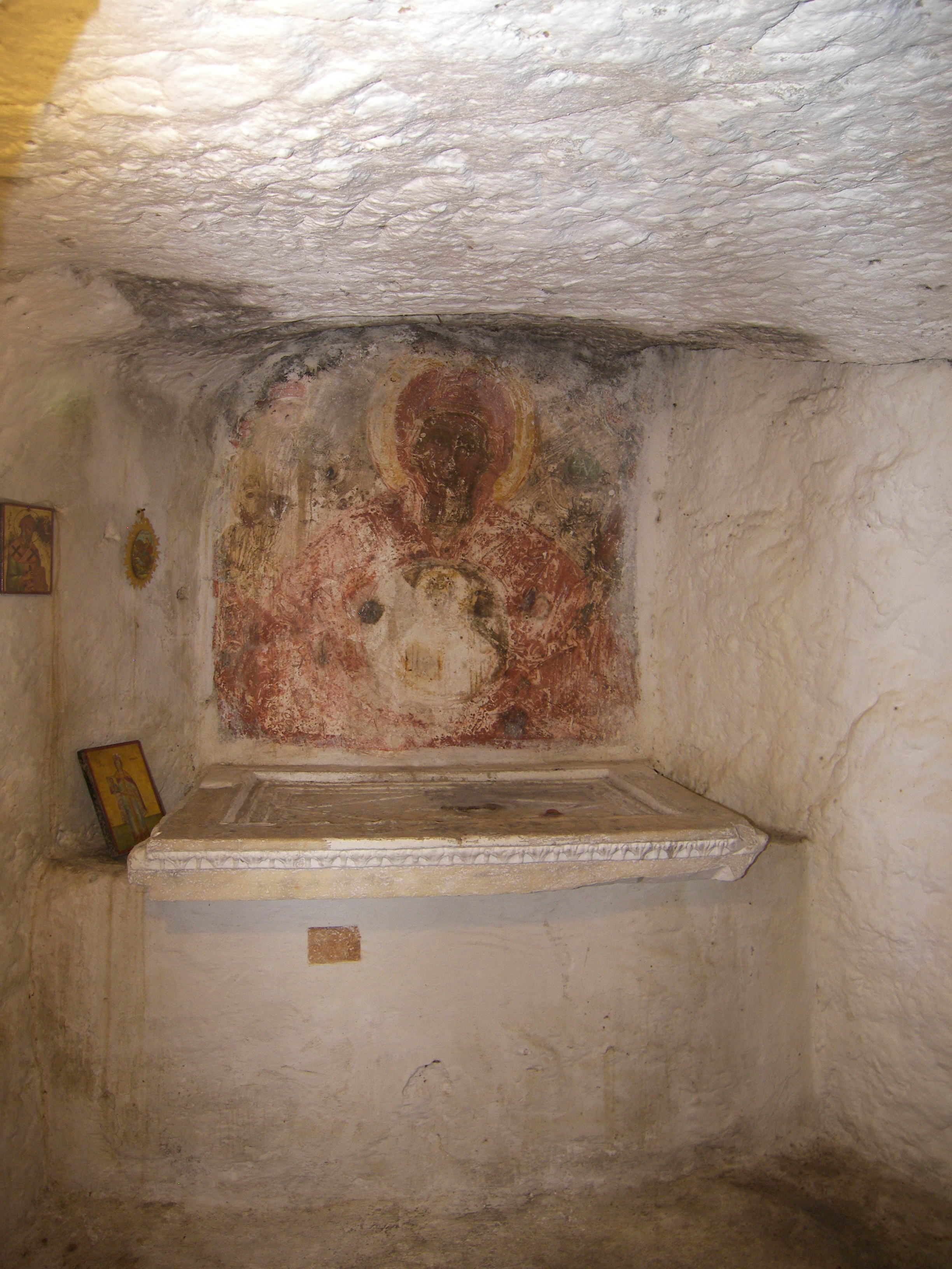 Please see filename